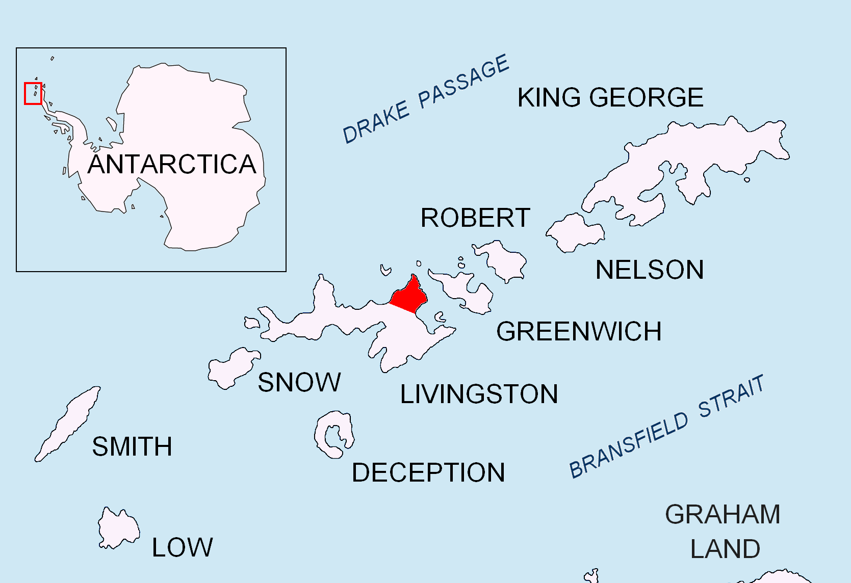 Location of Varna Peninsula on Livingston Island in the South Shetland Islands.